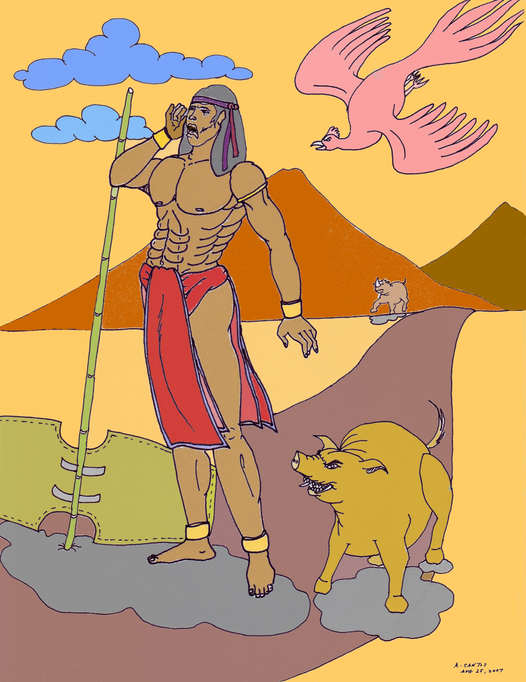 Lam-Ang, Philippine folklore hero, summoning animals as aide for an upcoming battle.